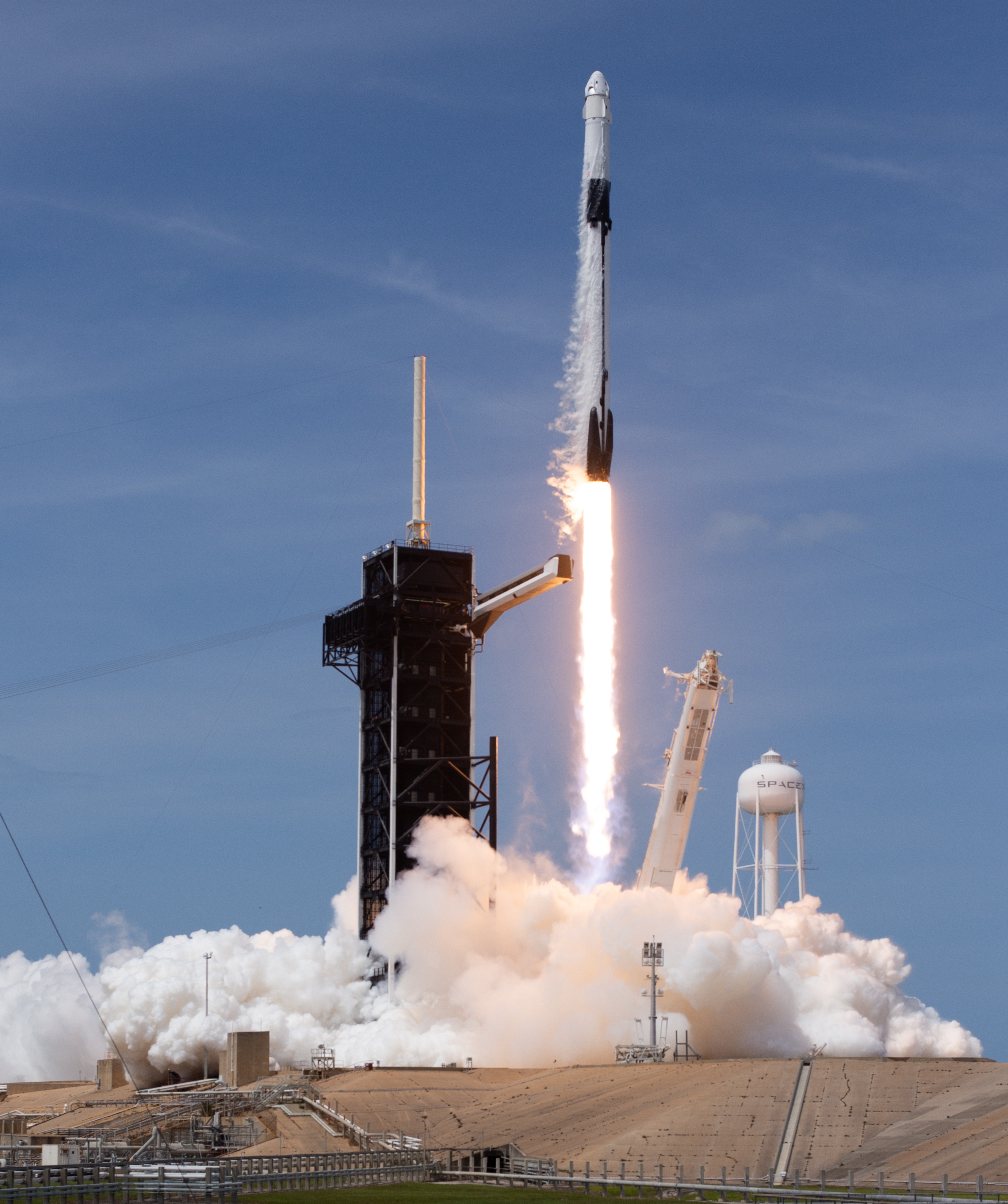 A SpaceX Falcon 9 rocket carrying the company's Crew Dragon spacecraft is launched from Launch Complex 39A on NASA’s SpaceX Demo-2 mission to the International Space Station with NASA astronauts Robert Behnken and Douglas Hurley onboard, Saturday, May 30, 2020, at NASA’s Kennedy Space Center in Florida. The Demo-2 mission is the first launch with astronauts of the SpaceX Crew Dragon spacecraft and Falcon 9rocket to the International Space Station as part of the agency’s Commercial Crew Program. The test flight serves as an end-to-end demonstration of SpaceX’s crew transportation system. Behnken and Hurley launched at 3:22 p.m. EDT on Saturday, May 30, from Launch Complex 39A at the Kennedy SpaceCenter. A new era of human spaceflight is set to begin as American astronauts once again launch on an American rocket from American soil to low-Earth orbit for the first time since the conclusion of the Space Shuttle Program in 2011. Photo Credit: (NASA/Joel Kowsky)